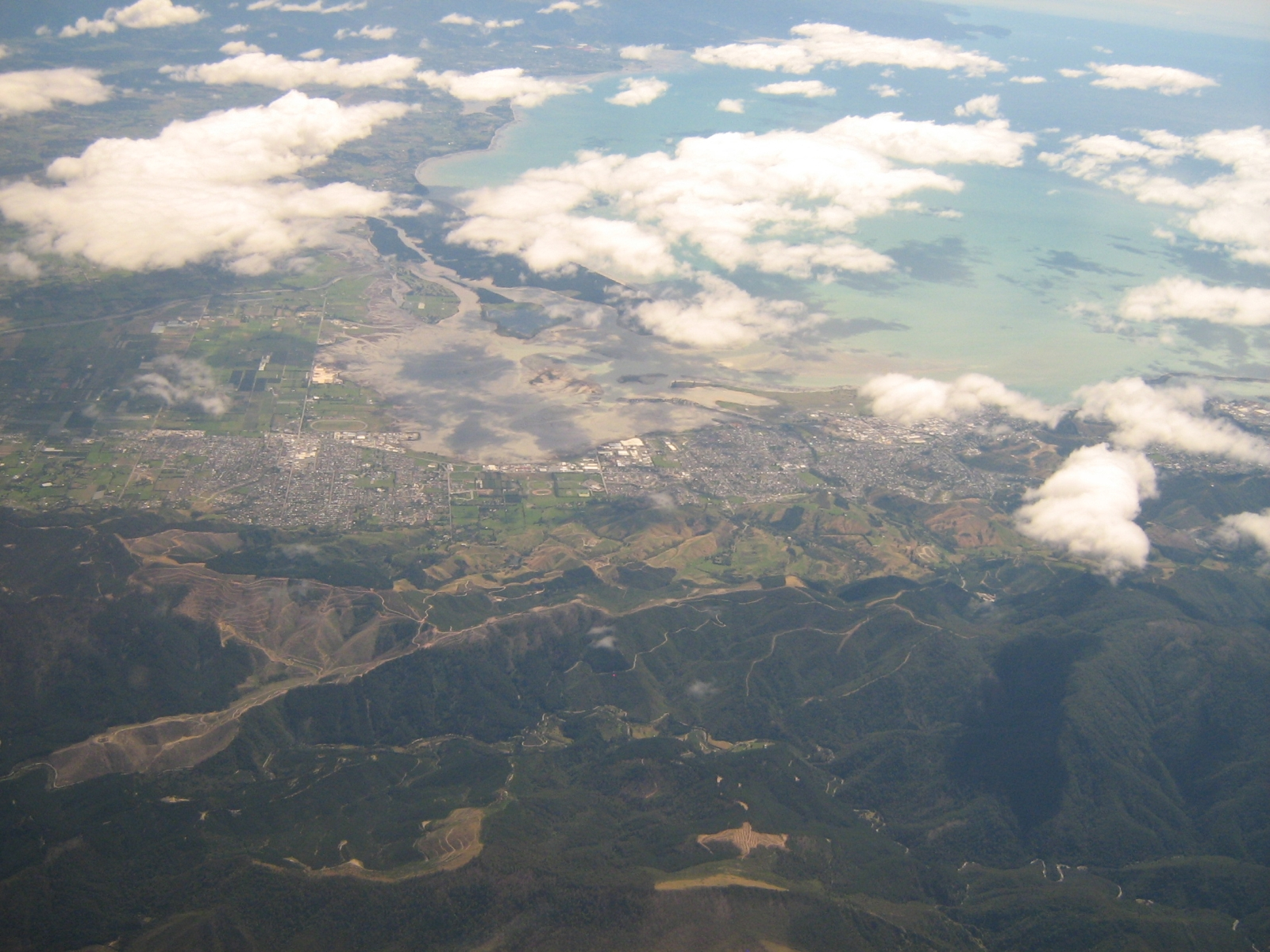 Richmond (left) and Nelson (right) in New Zealand. Seen from a flight from Westport to Wellington, looking west.